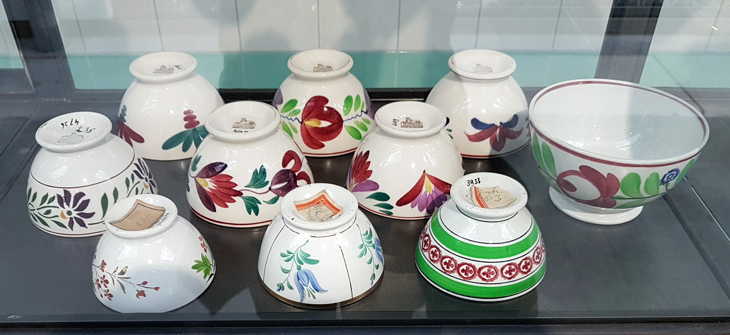 Pottery display in the Sphinx Passage in Maastricht, Netherlands. The Sphinx Passage is a covered walkway, situated between the 1930s Eiffel Building and the modern Pathé Cinema, in the heart of the Sphinx Quarter, the former site of the Petrus Regout and Royal Sphinx potteries. The blind east wall of the passage is entirely tiled, showing Maastricht's history as an early industrial pottery town. The display in this showcase is of bowls decorated as Boerenbont.